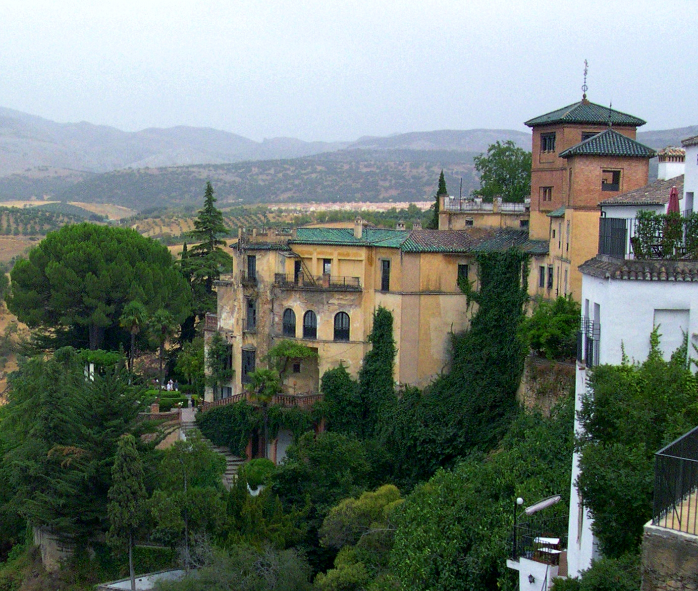 Casa del Rey Moro, Ronda, Spain